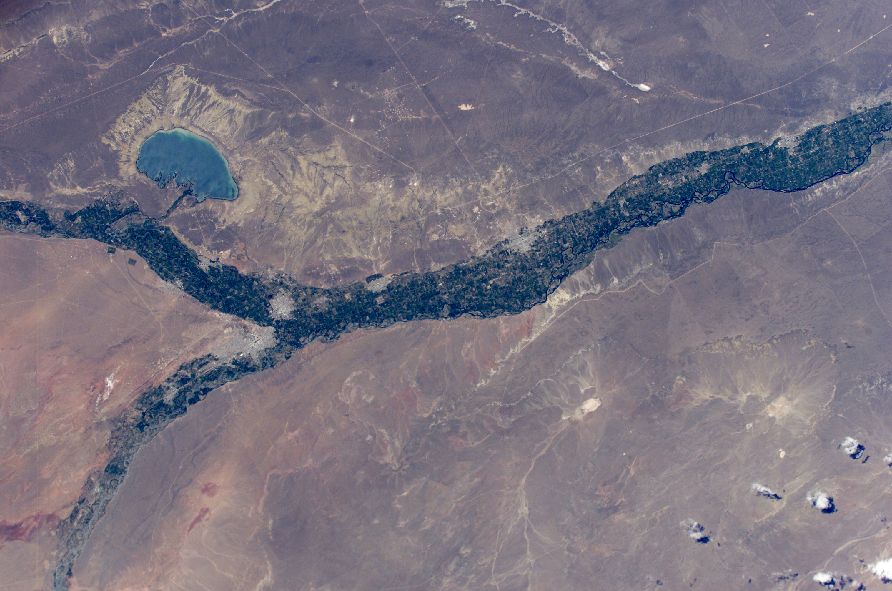 The valley of the Neuquén River and the Pellegrini Lake in Argentina. The image has been enhanced for contrast.